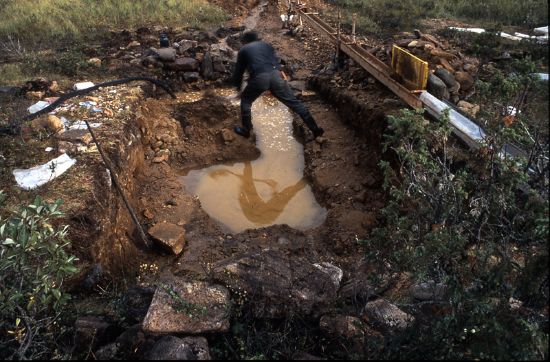 Marko Vuokola, documentation of the making of "Gold Thread", 1995. The artist went to northern Finland, where he spent five weeks digging for gold. The resulting gold, 4 grams, was used to spin a thread 0,12 x 7000 mm.